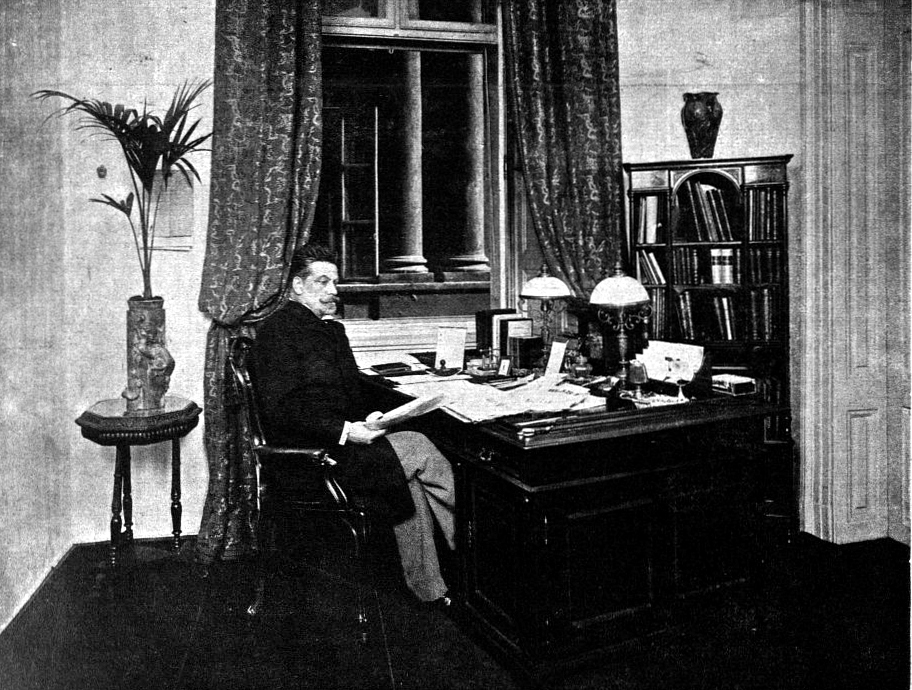 Antonín Rezek (1853-1901), Minister of Czech Affairs of Austria-Hungary, at his office.